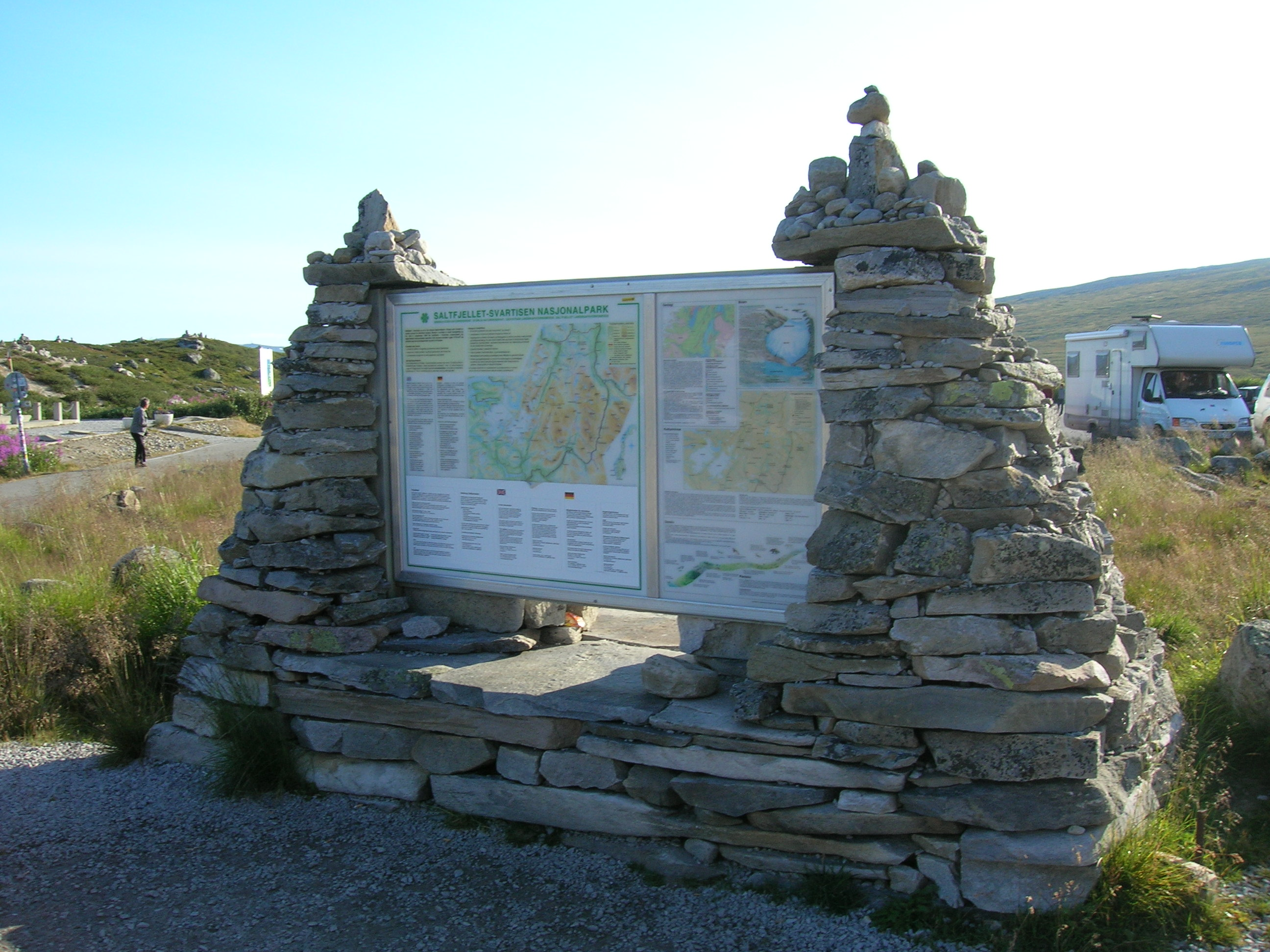 Information about Saltfjellet-Svartisen National Park at the Arctic Circle on Saltfjellet, Rana municipality, Norway. Photo on 16 August, 2008 with a Nikon Coolpix 5600 5,1 Megapixel camera.